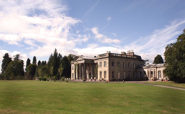 Stracathro Mansion House, a fine A listed Palladian Mansion House by Archibald Simpson built 1824-27. 1938-2002 staff residence for Stracathro Hospital Stracathro House has been privately owned since 2003.